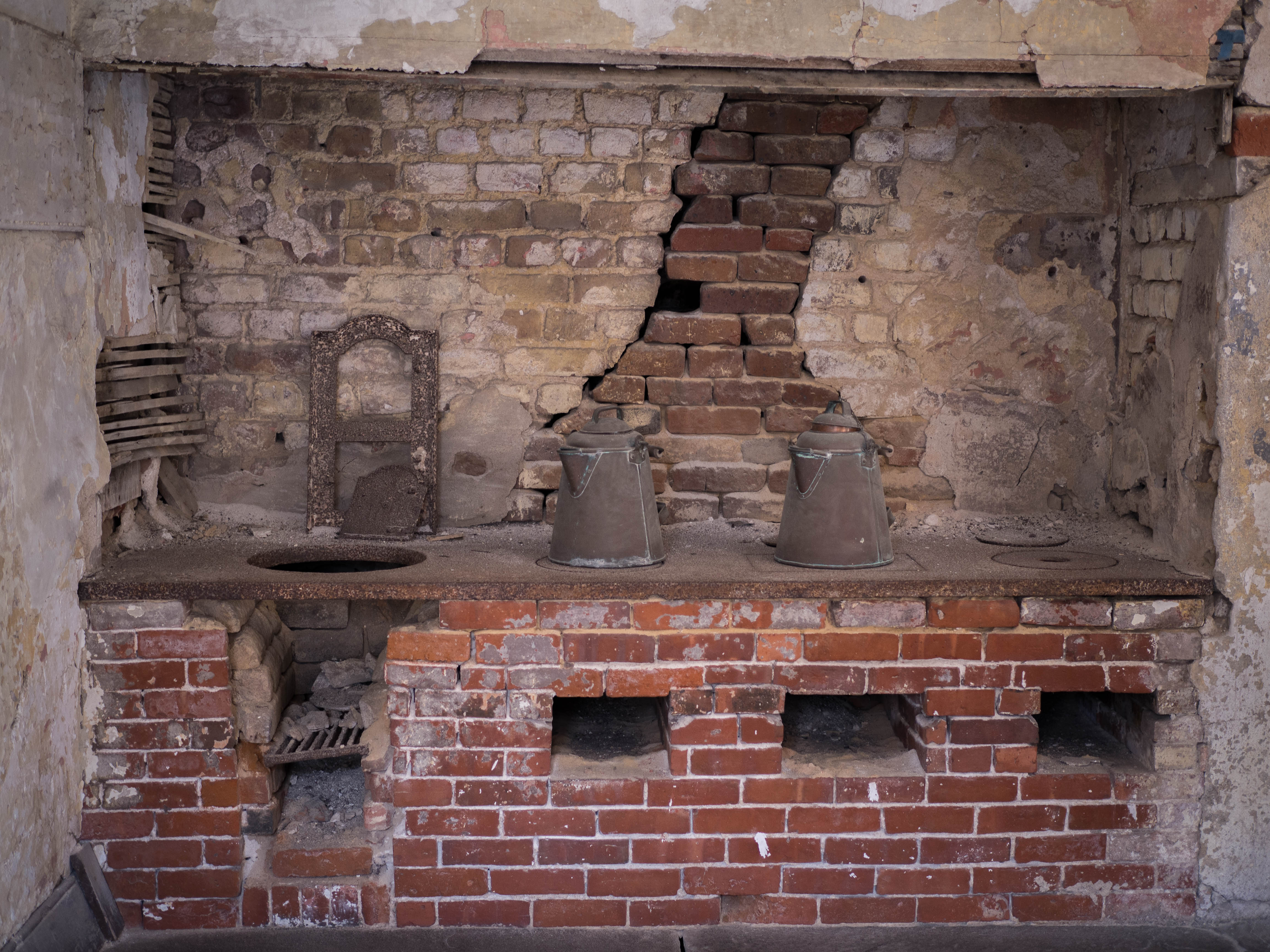 hearth, enslaved living quarters, Aiken-Rhett House